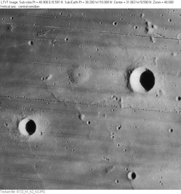 LO-IV-133H. Milichius is the circular crater to the right of center. The 9-km diameter crater on the left is Milichius A, and the 4-km crater near the bottom is Milichius K. Neither the prominent dome to the west of Milichius, nor the less obvious one to its northwest, both of which have what appear to be volcanic caldera at their summits, have official IAU names, although the more prominent one was formerly known as Milichius Pi.